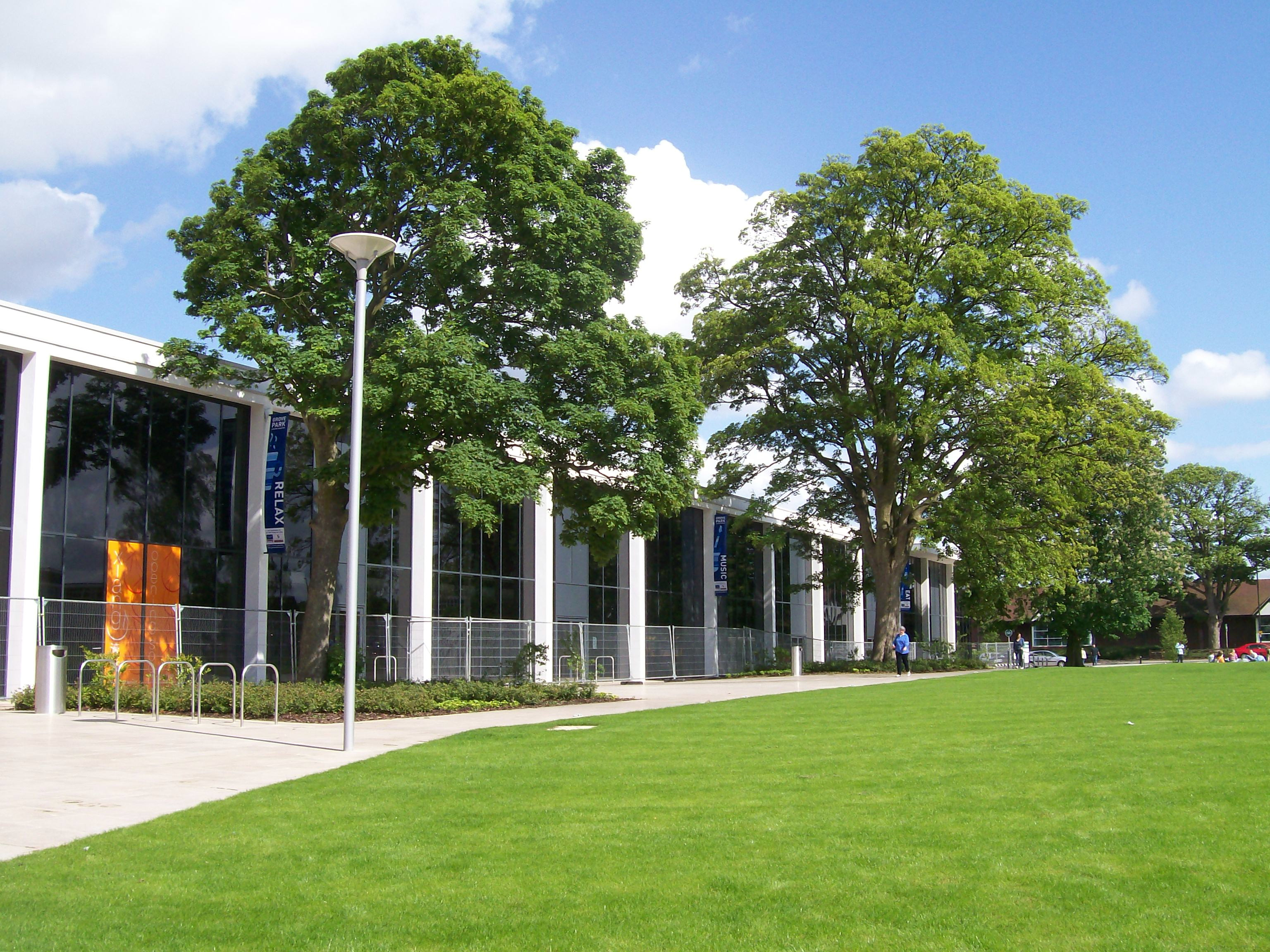 New Grove Theatre Dunstable. I took this. (Nat Warren).